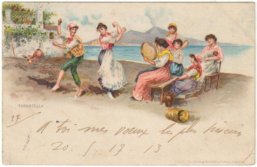 Naples, tarantella 1903